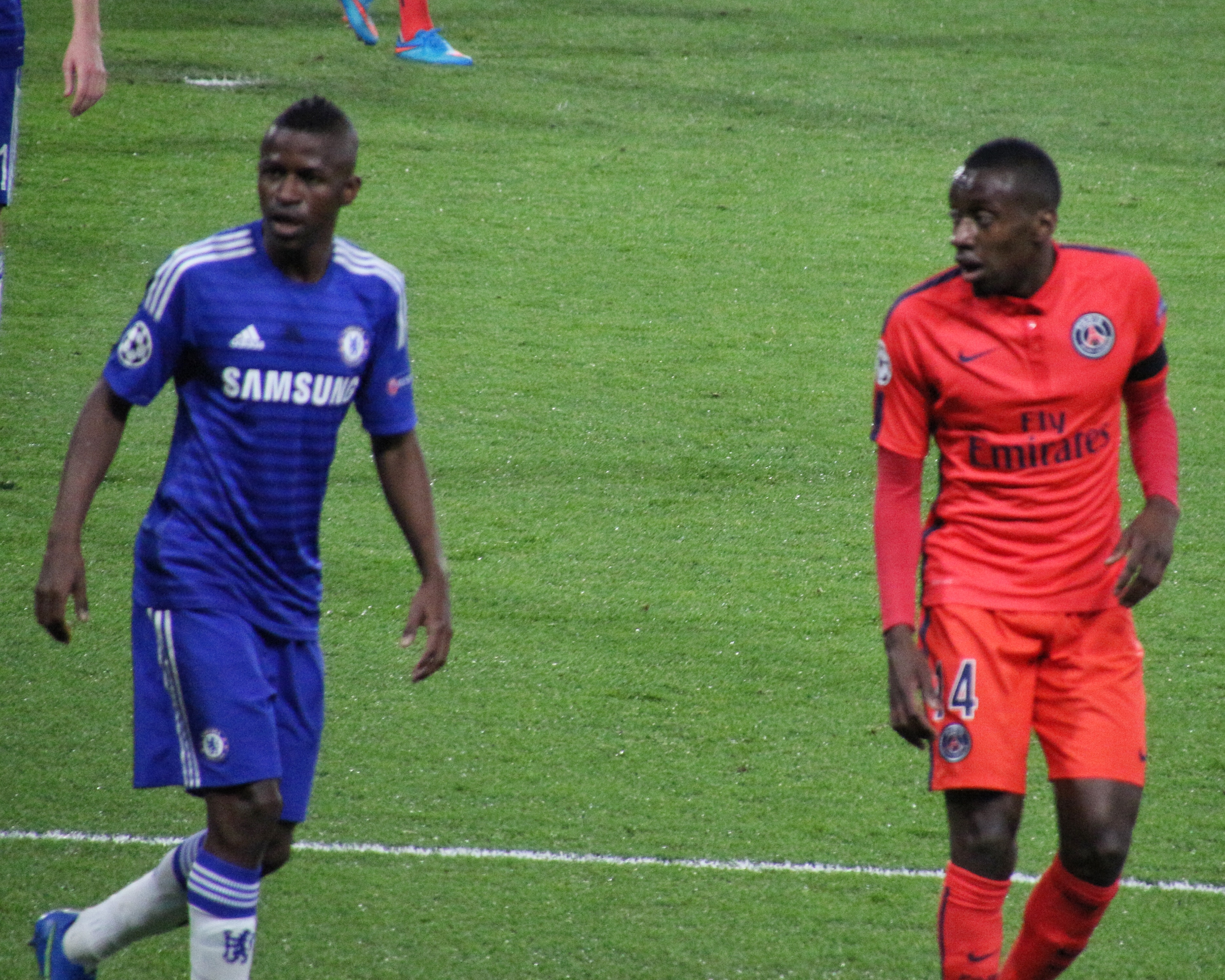 Chelsea 2 PSG 2 (Agg 3-3)